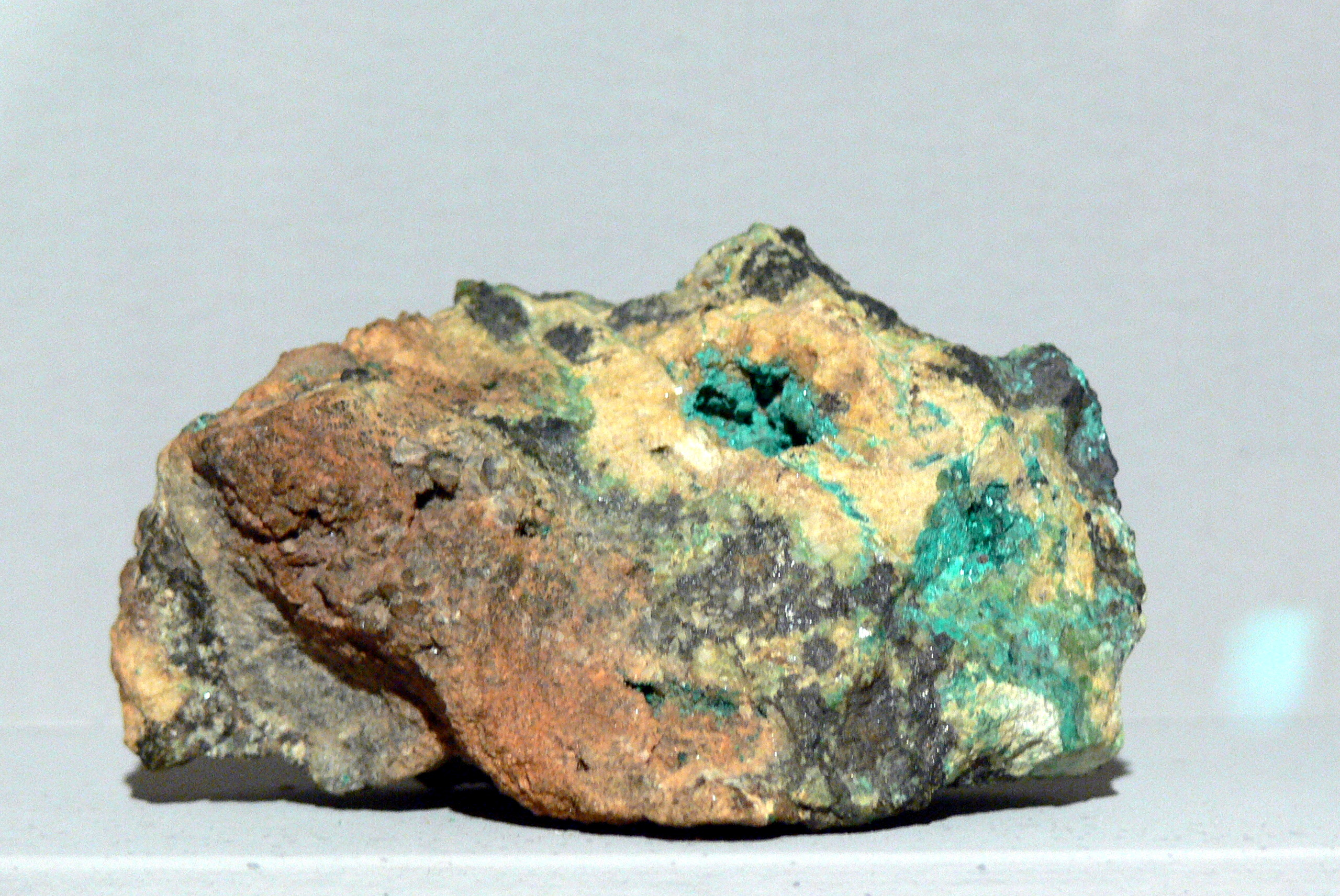 Museum of Mining and Gothic art in Leogang ( Salzburg state ). Mineral collections: Leogangite.